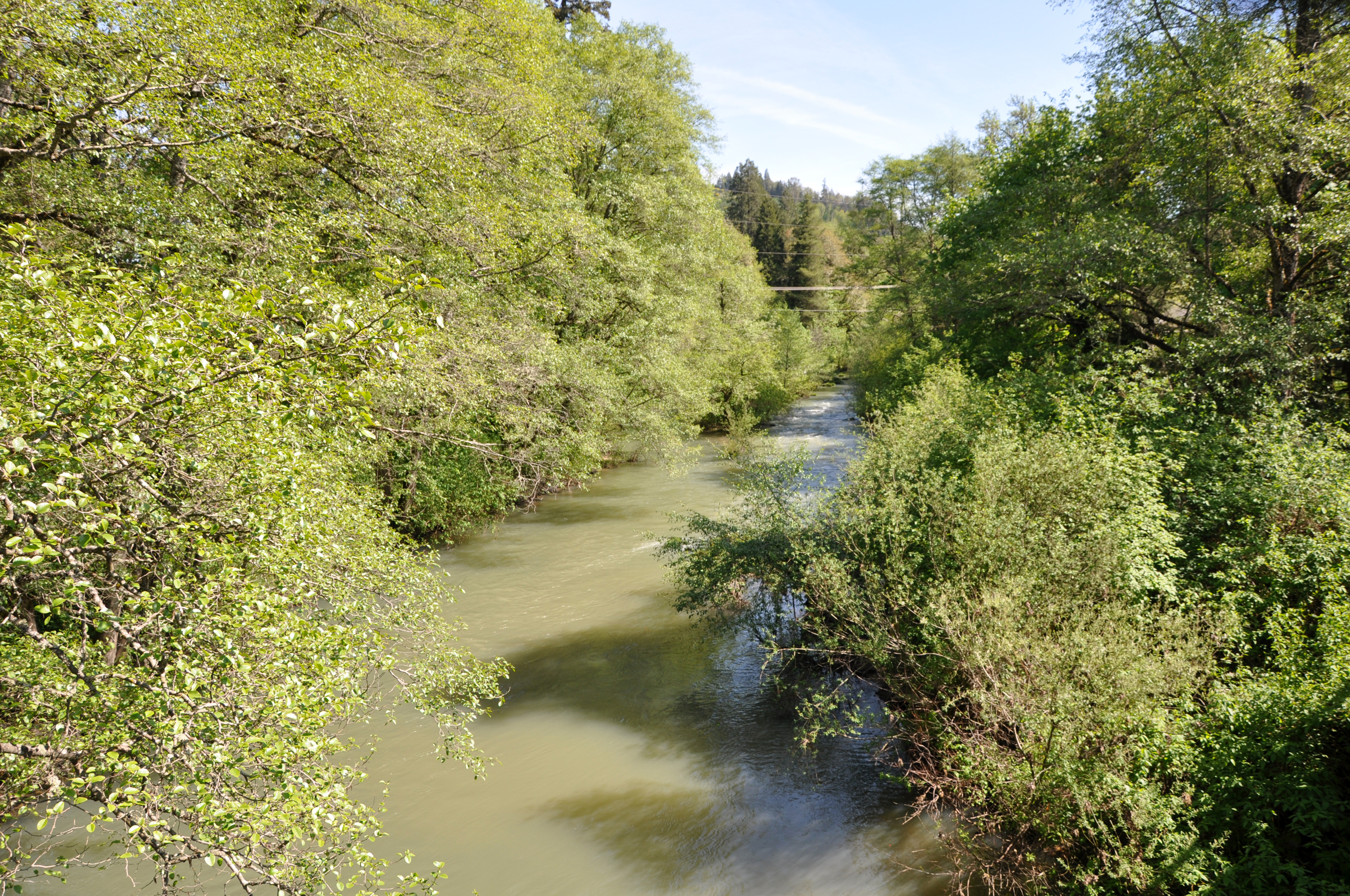 Pass Creek flowing through the small city of Drain in the U.S. state of Oregon. View is downstream from a bridge carrying Oregon Route 38 and U.S. Route 99 over the creek.